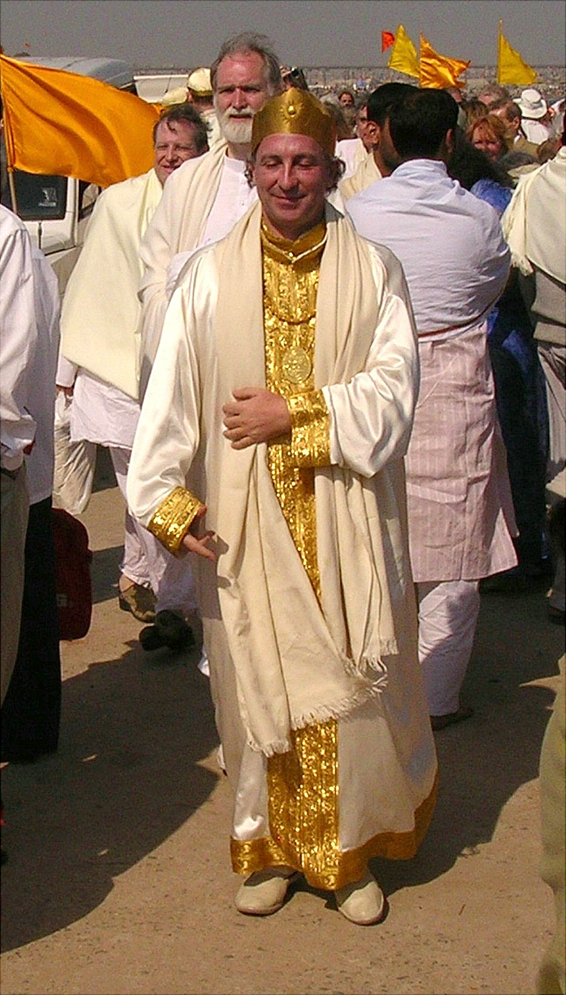 Photo of Tony Nader, AKA Raja Ram, leader of the Global Country of World Peace and the Transcendental Meditation movement.